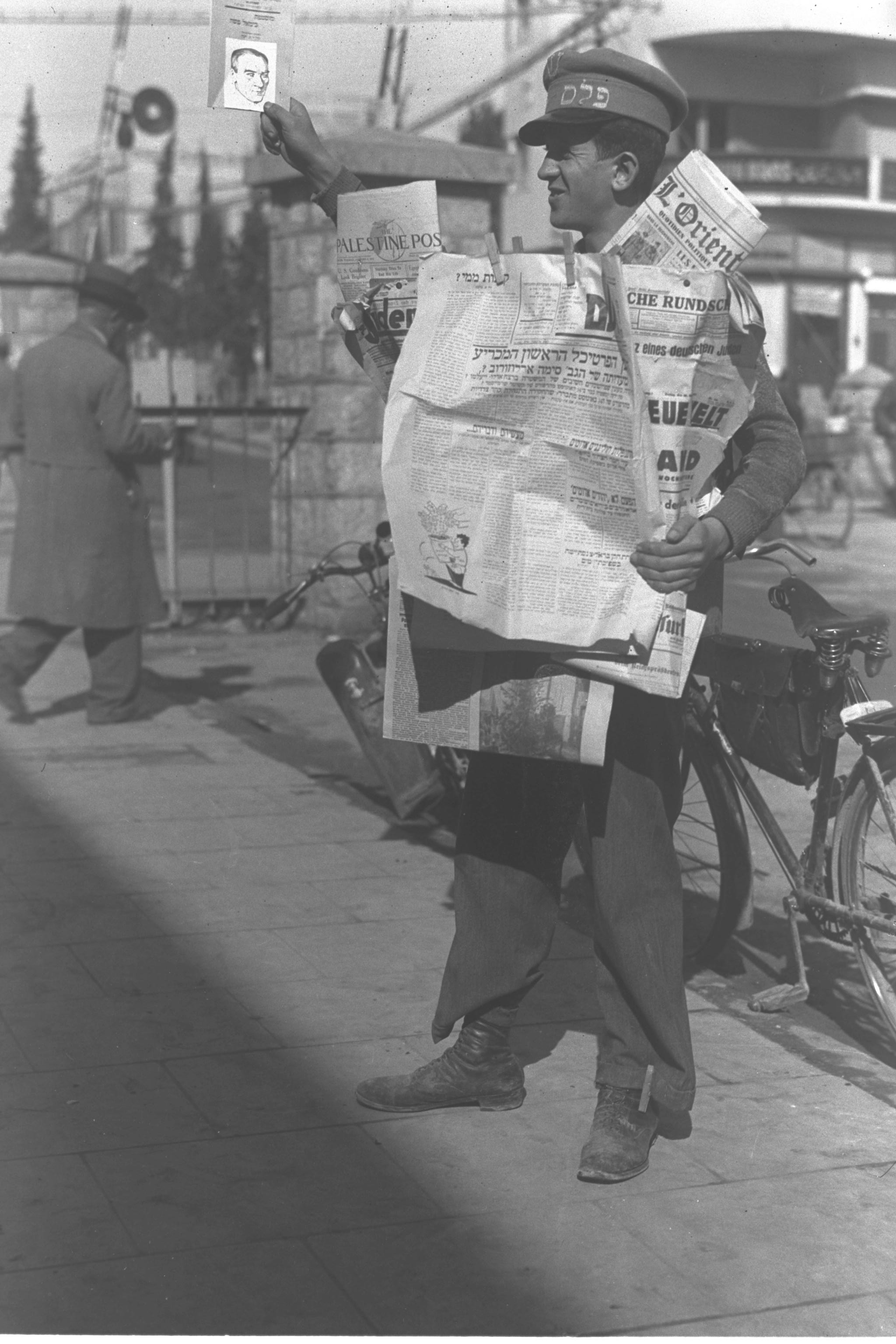 A NEWSPAPER VENDOR IN TEL AVIV. מוכר עיתונים בתל אביב.